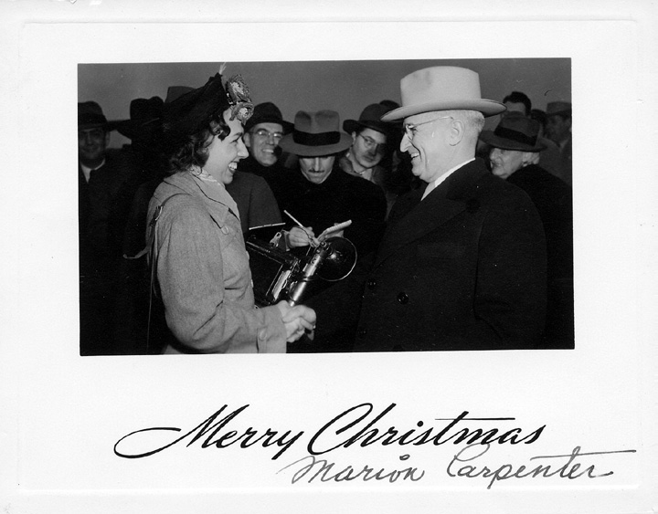 Christmas card (Photograph 58-649) sent to President Truman in 1949 from Marion Carpenter.